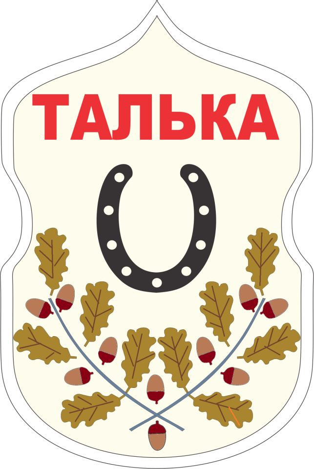 Coat of Tal'ka